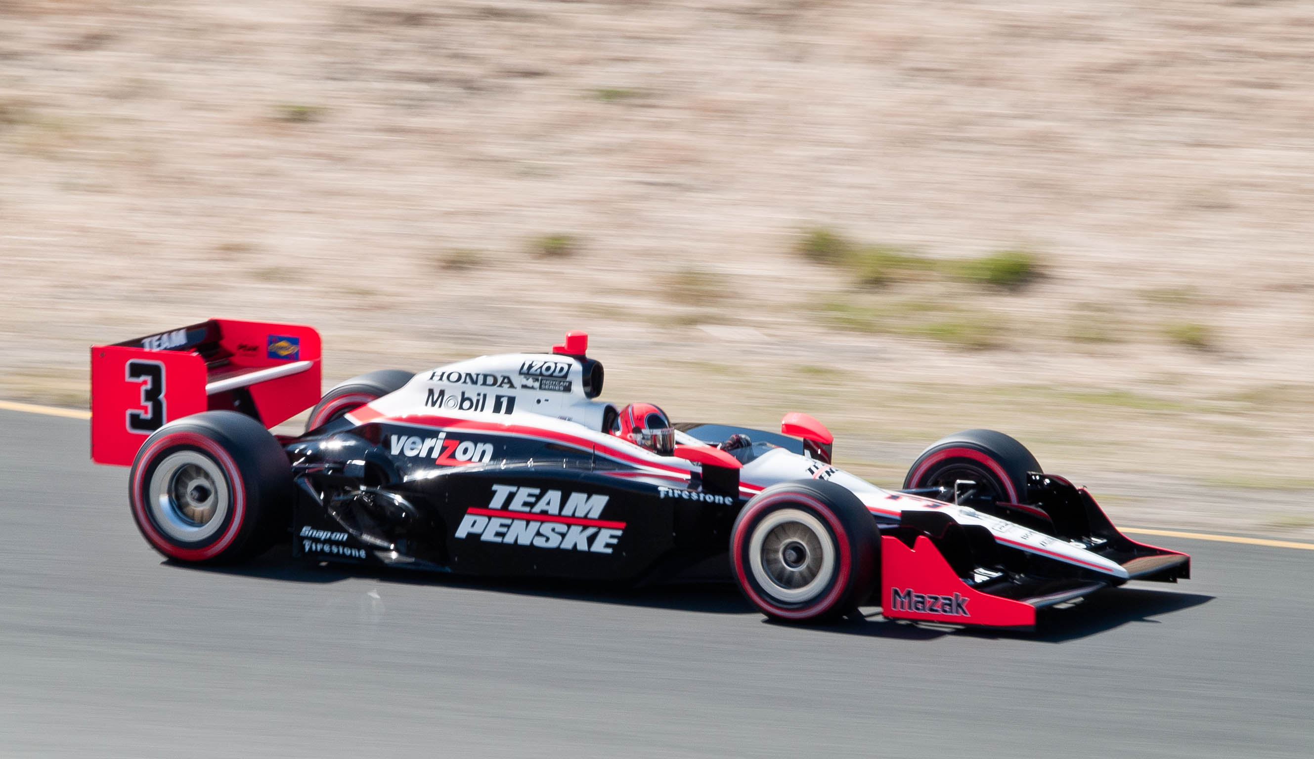 Helio Castroneves